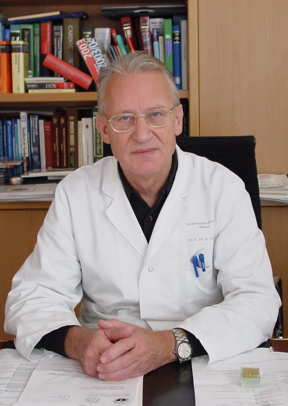 Prof. Hellmut Oelert in his office at the Universitätsmedizin der Johannes Gutenberg-Universität Mainz (Germany)